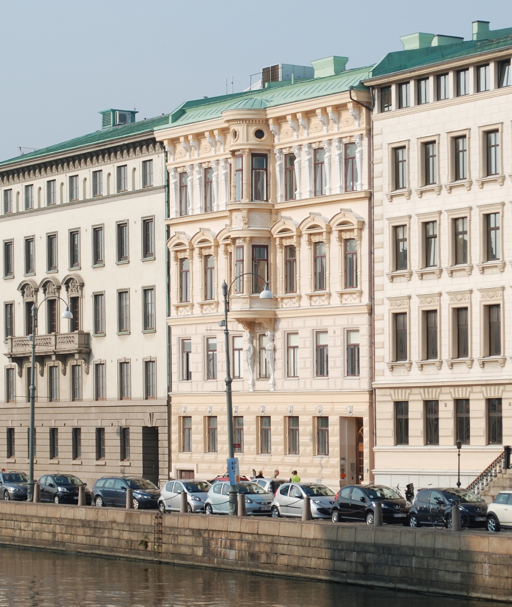 Norra Hamngatan 4.